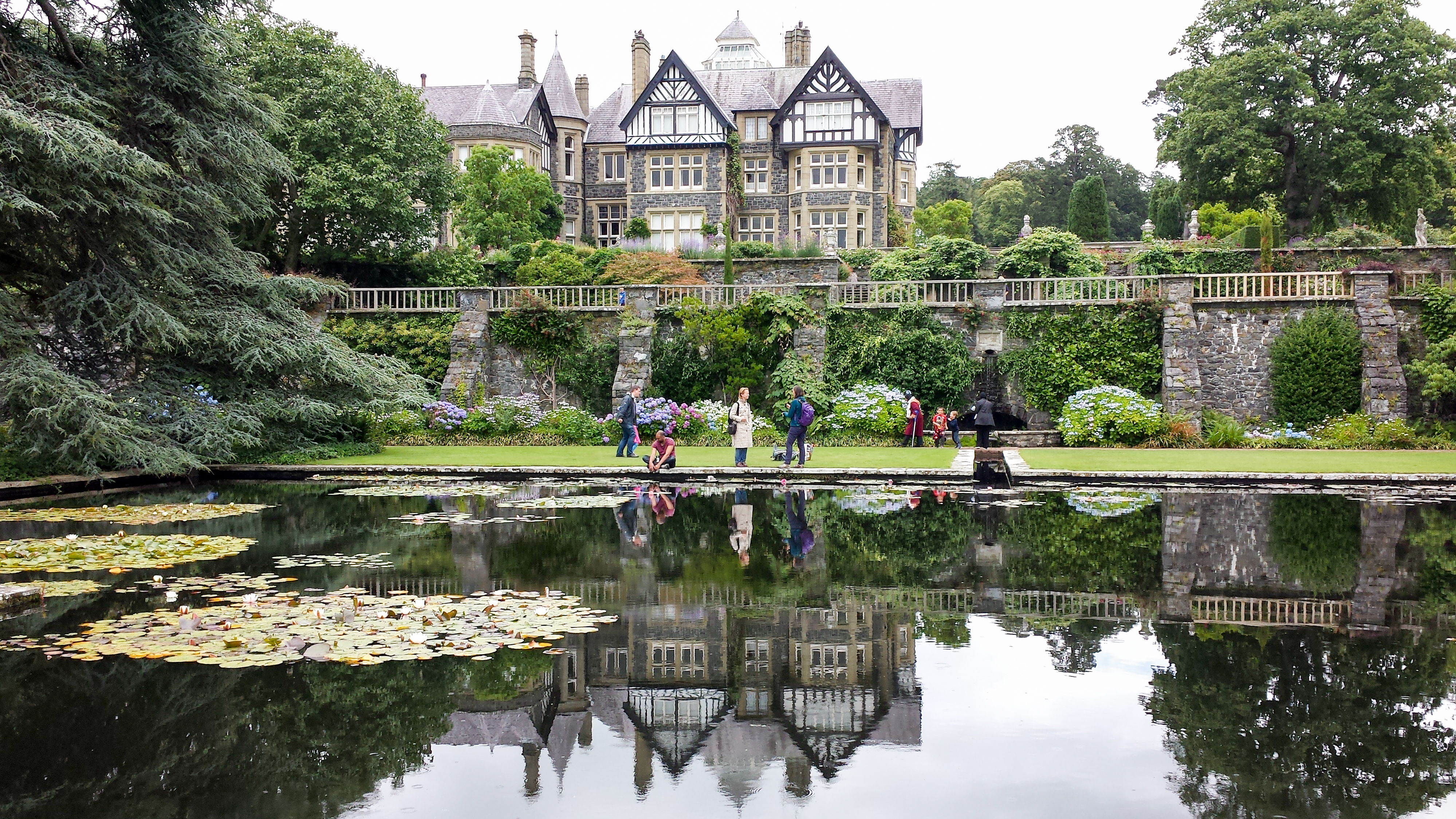 Bodnant Hall viewed from Bodnant Garden, Tal-y-Cafn, Wales.